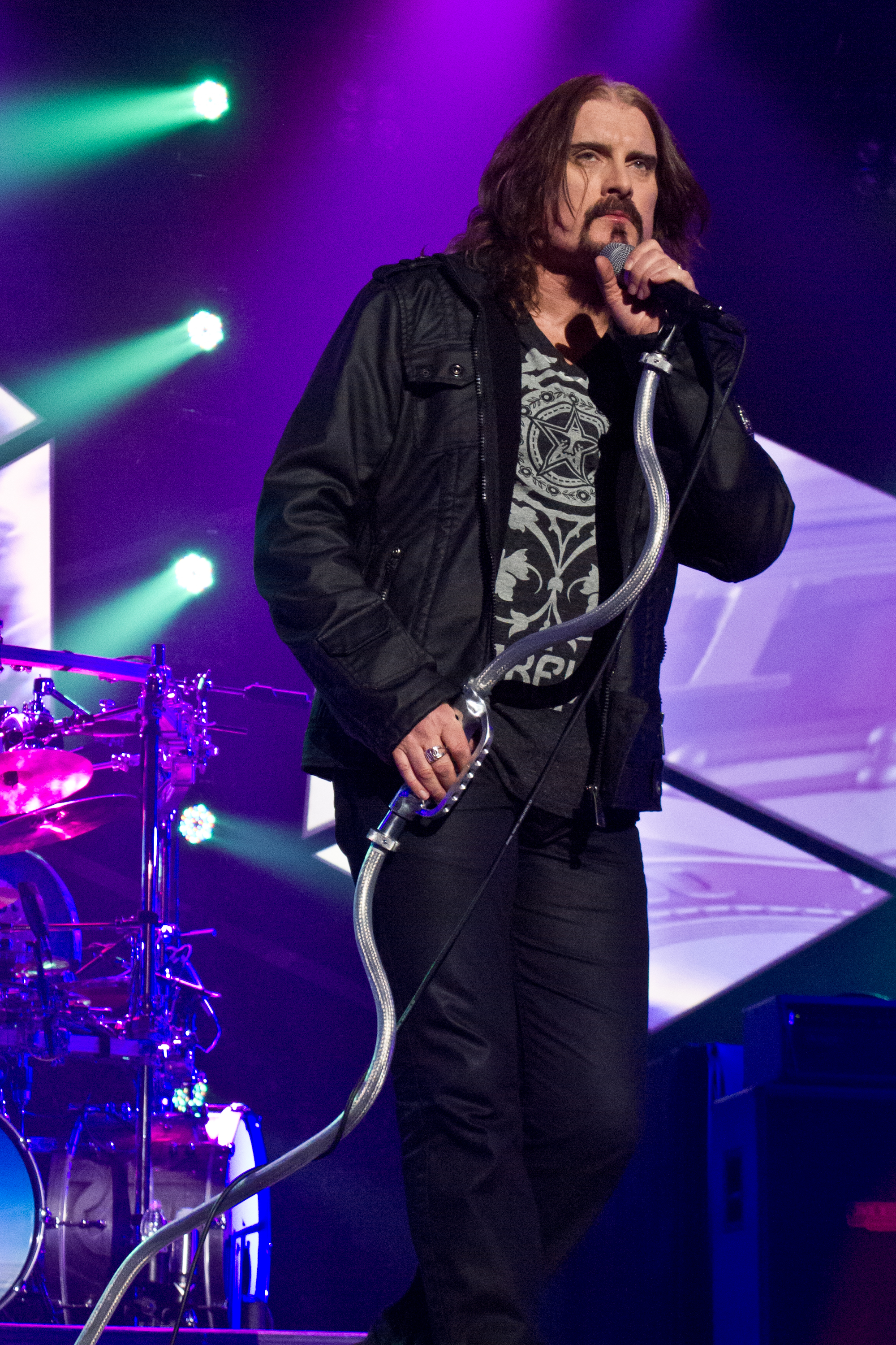 Dream Theater's vocalist, James LaBrie, in concert in 2012.